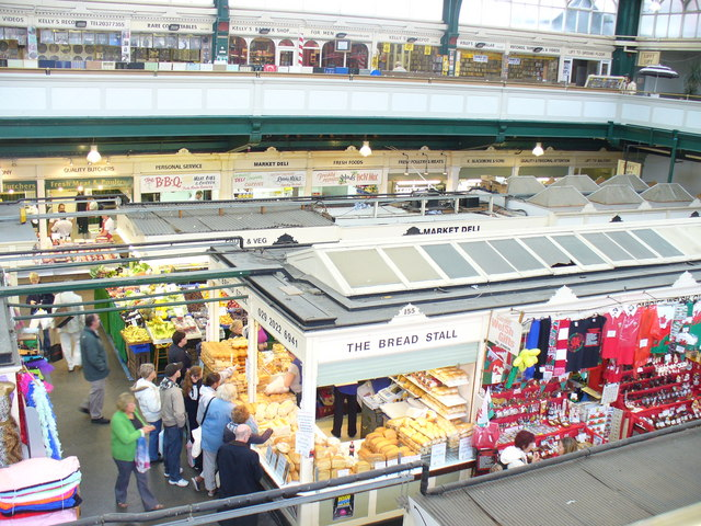 Cardiff Market Large city centre Victorian market hall with an upstairs gallery. It sells mainly food but has some other sidelines, like old records.